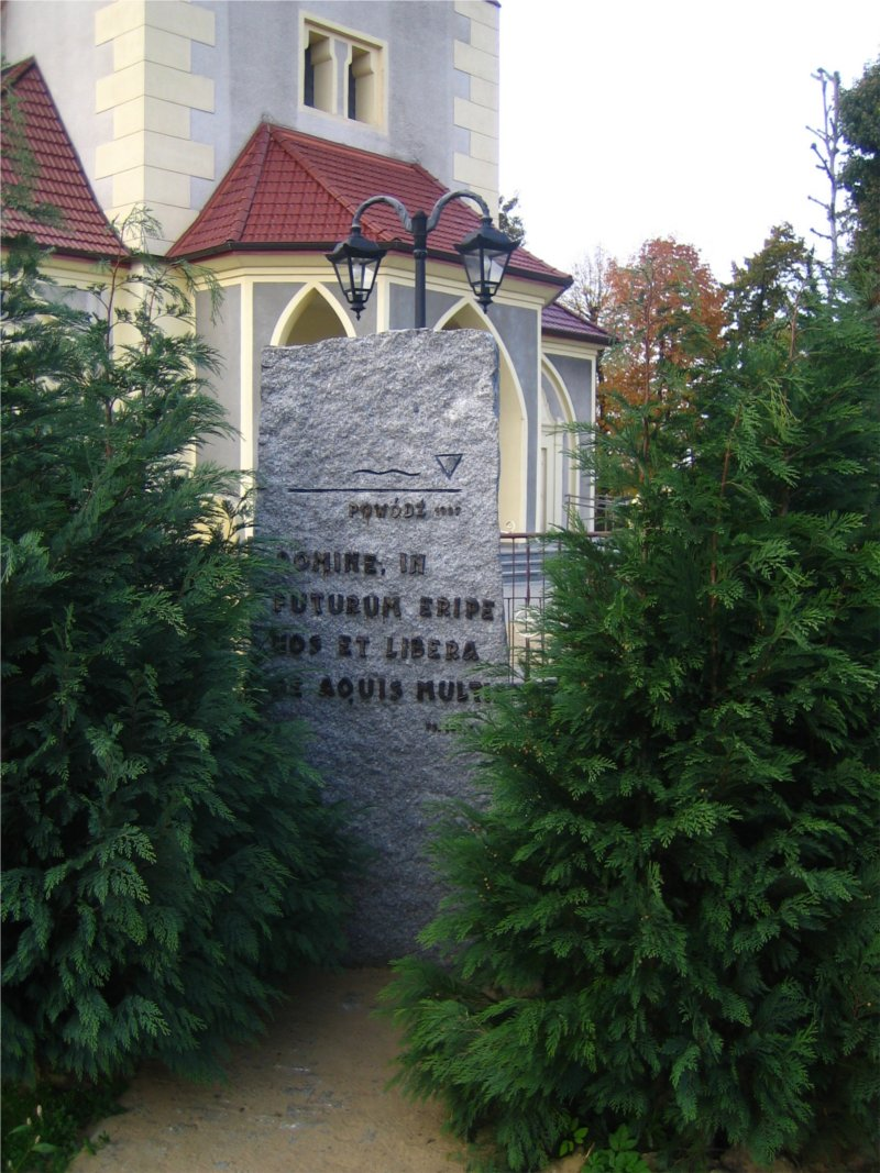 Memory stone after flood in 1997, Cisek, Silesia, PL